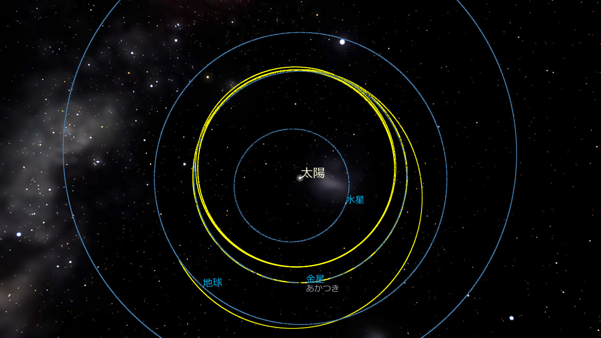 Akatsuki's orbit at June 5, 2017（yellow） 太陽=Sun 水星=Mercury 金星=Venus 地球=Earth あかつき=Akatsuki spacecraft